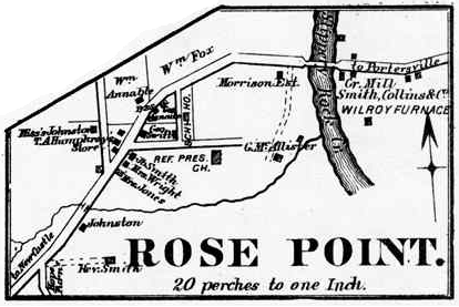 Map of Rose Point, an unincorporated community in Slippery Rock Township, Lawrence County, Pennsylvania, United States. Image taken from Atlas of the County of Lawrence and the State of Pennsylvania, published in 1872 by G.M. Hopkins & Co. of Philadelphia.